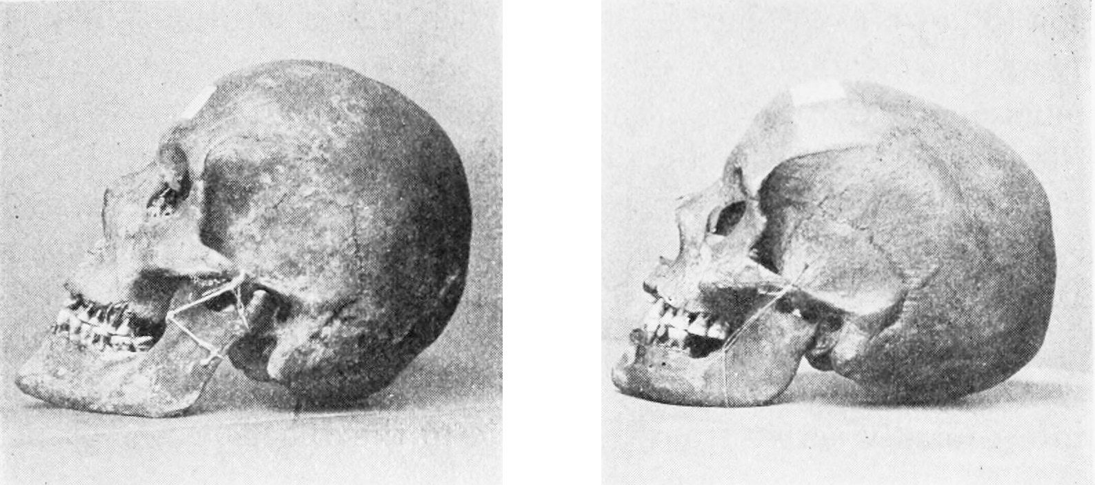 Brachycephalic and dolichocephalic types from the coast of Zeeland